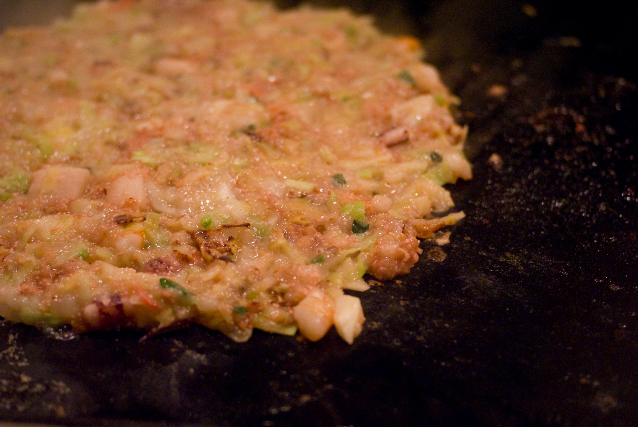 Monjayaki